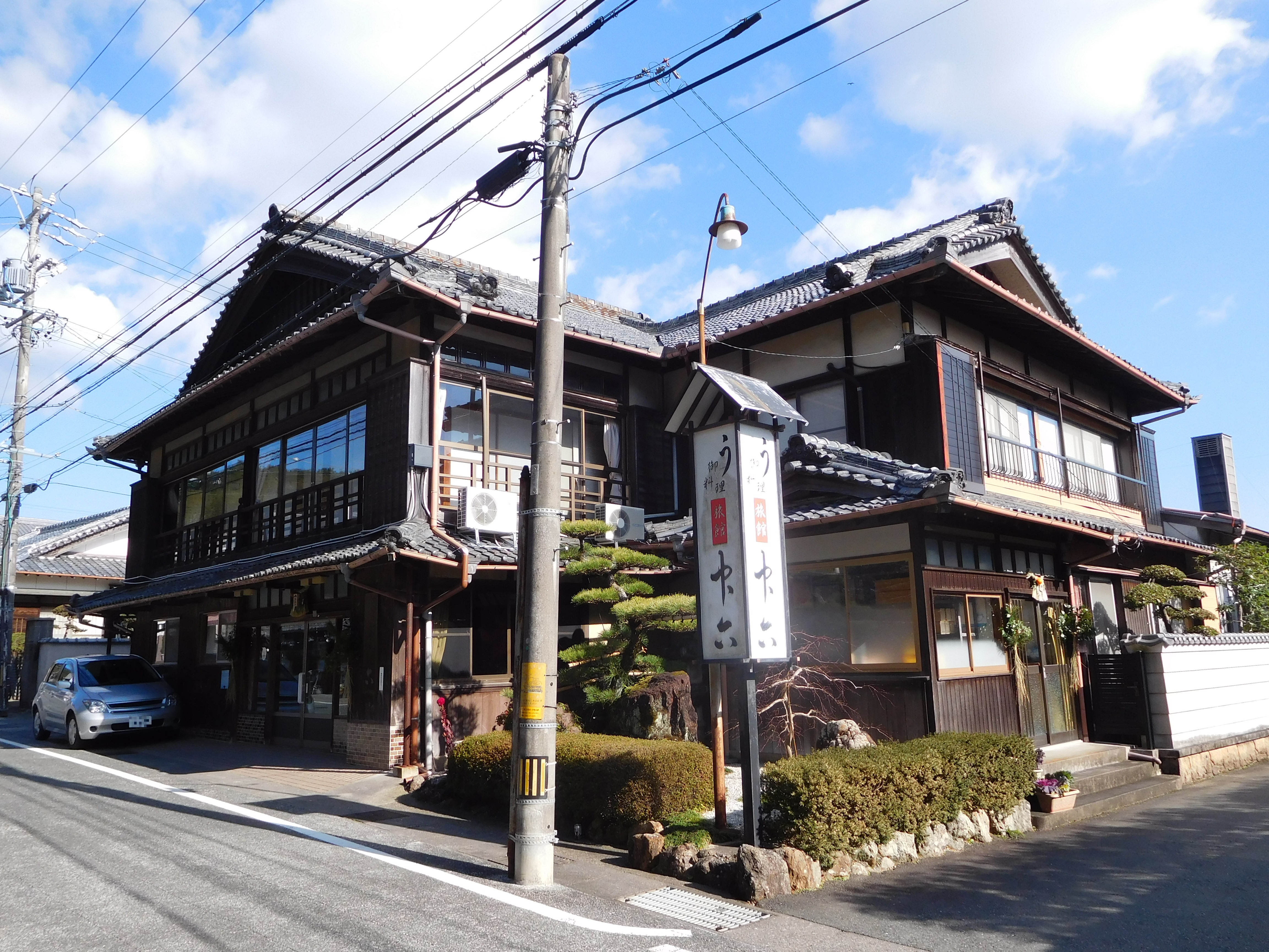 This is the eel restaurant "Nakaroku", which is in Isobecho-Kaminogo, Shima, Mie, Japan.